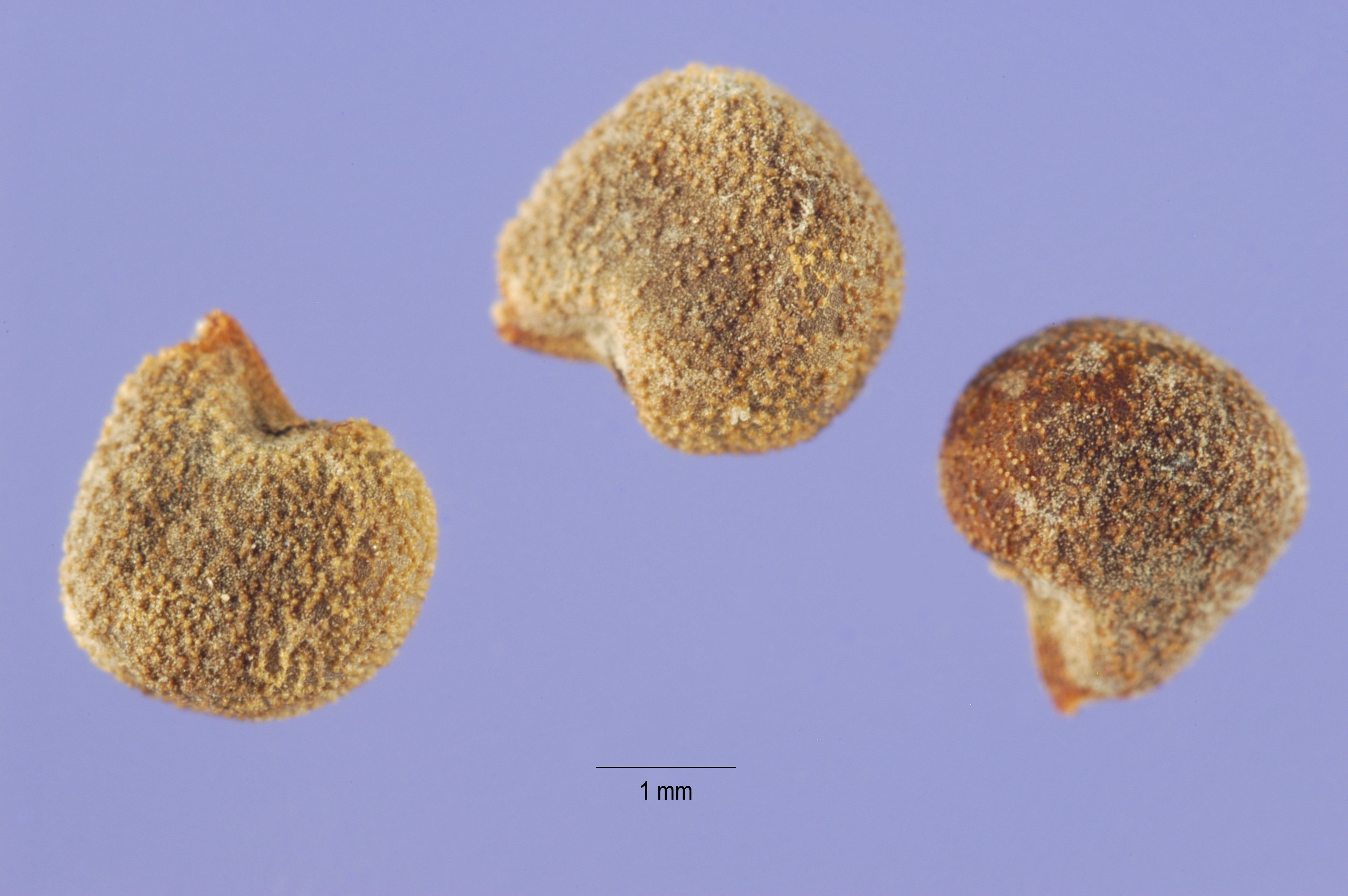 Seeds of Anoda cristata from USDA ARS Systematic Botany and Mycology Laboratory. Peru, Cajamarca.